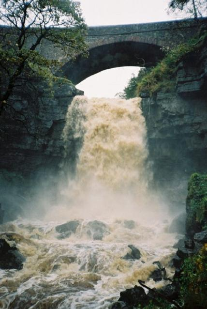 Ashgill Force. A tremendous sight and sound after heavy rain.